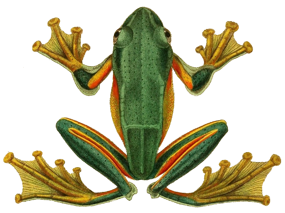 Black-webbed tree frog Rhacophorus reinwardtii (Anura: Rhacophoridae).